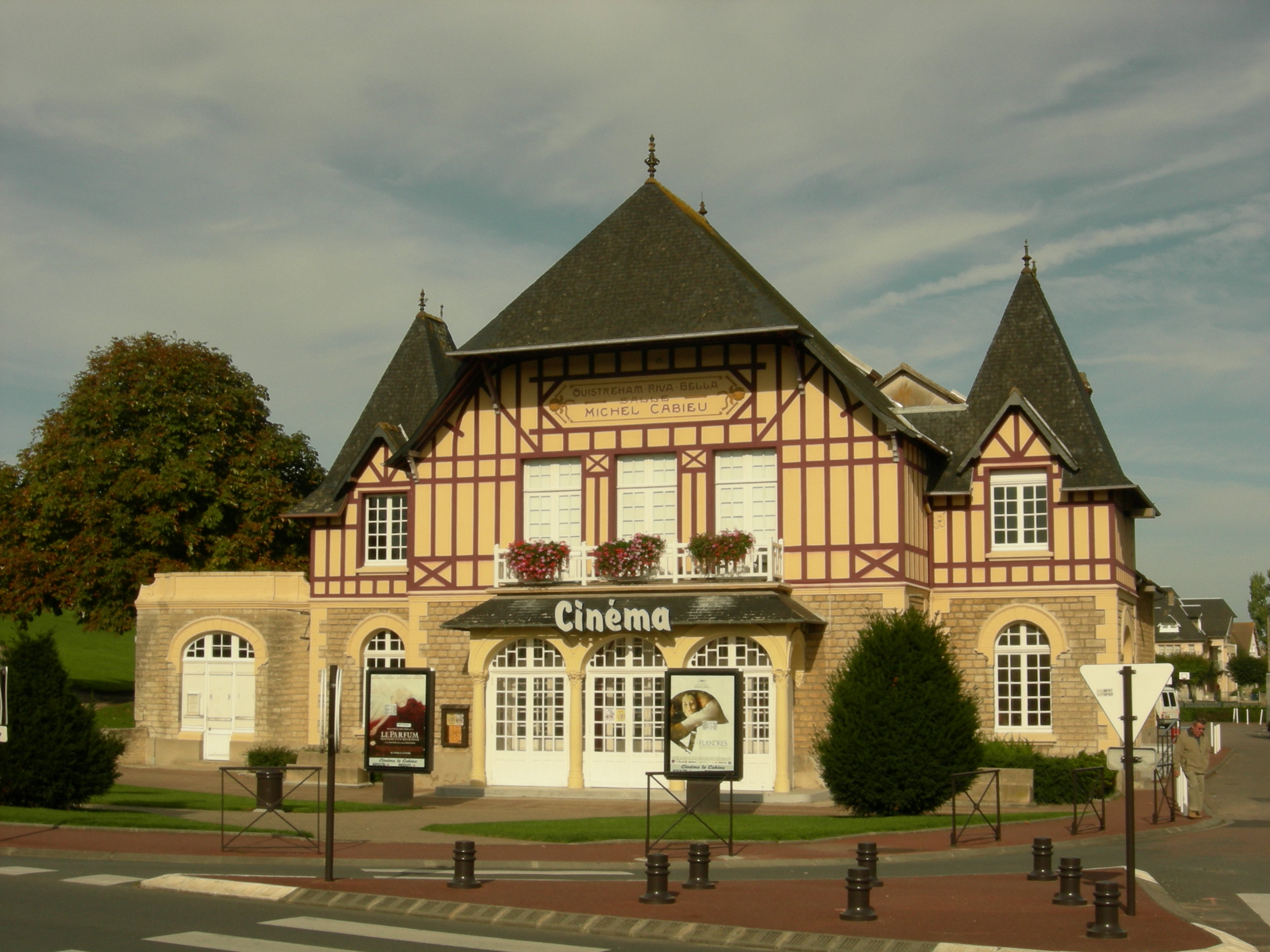 Movie theater named after Michel Cabieu